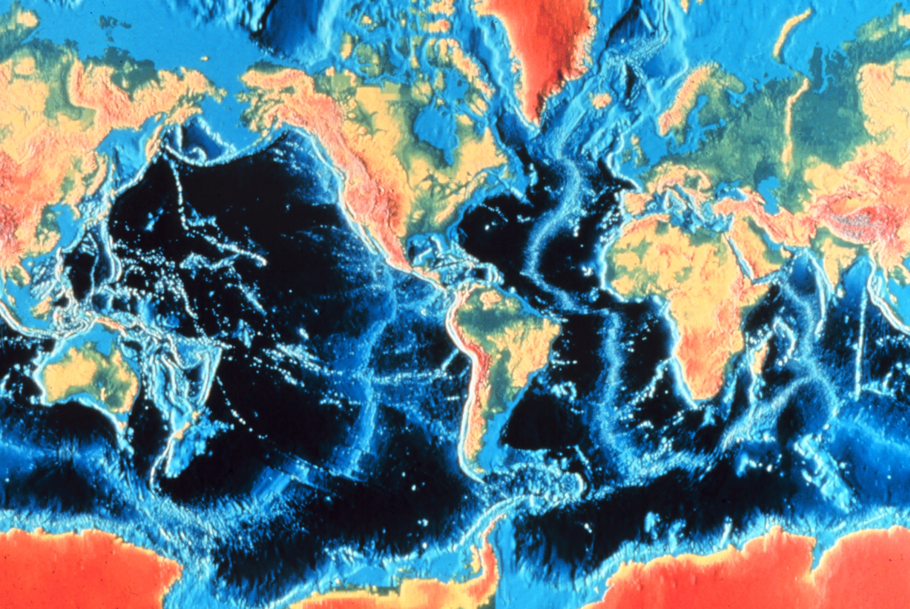 World map with elevation of the land and depth of the oceans - Source: U.S. National Oceanic and Atmospheric Administration